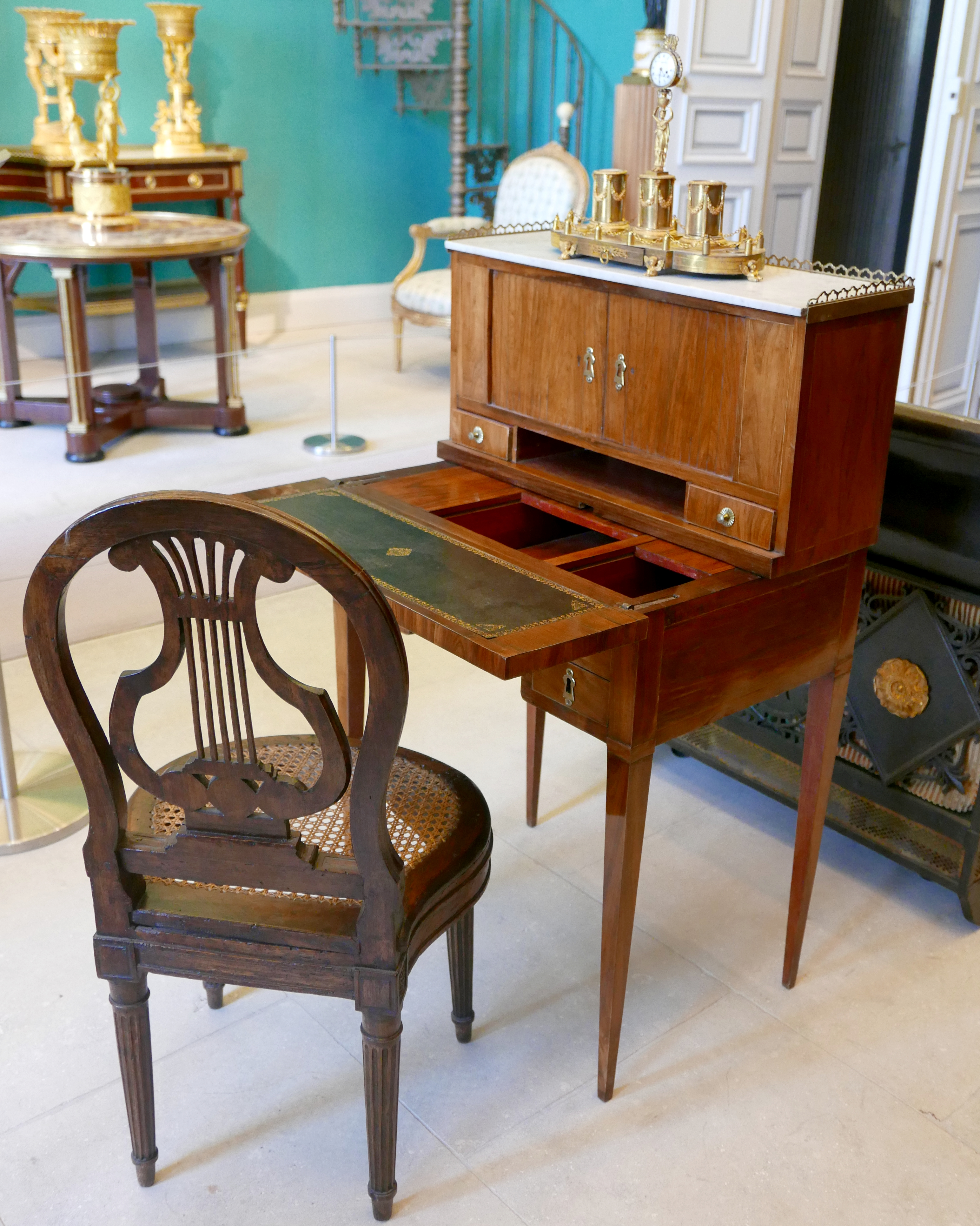 Montpellier (Hérault, France), Cabrières-Sabatier d'Espeyran private mansion, now annex to the Fabre museum dedicated to Decorative Arts.